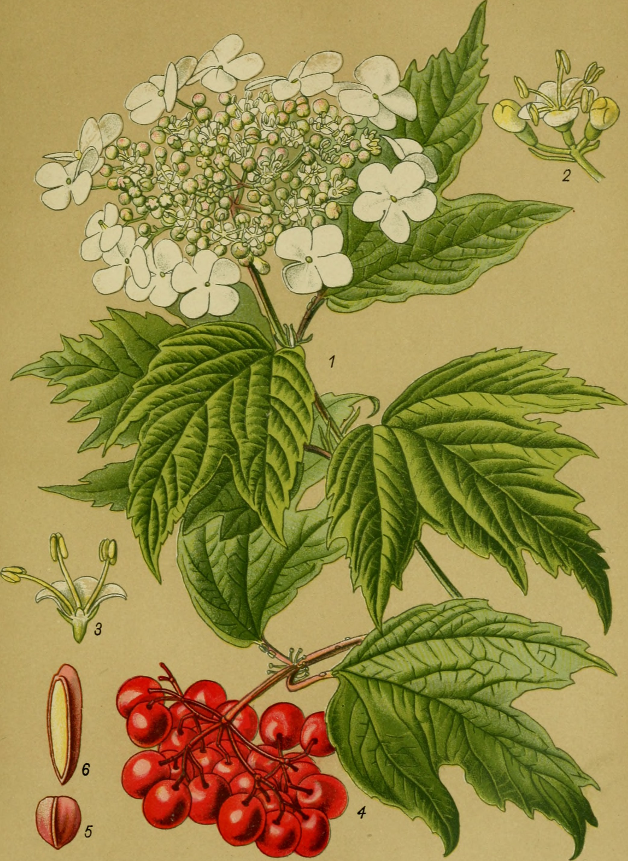 Title: Die Giftpflanzen Deutschlands Year: 1910 (1910s) Authors: Esser, Peter, 1859- Subjects: Poisonous plants Publisher: Braunschweig, F. Vieweg Text Appearing Before Image: Tafel 106. Tafel 106. Text Appearing After Image: Schneeball. Viburnum opulus L 1 Blühender Zweig. 2 Teil der Blütendolde. .3 Blüte im Längsschnitt. 4 Frucht- zweig. 5 Same. 6 Same im Längsschnitt 2 bis 6 vergr.